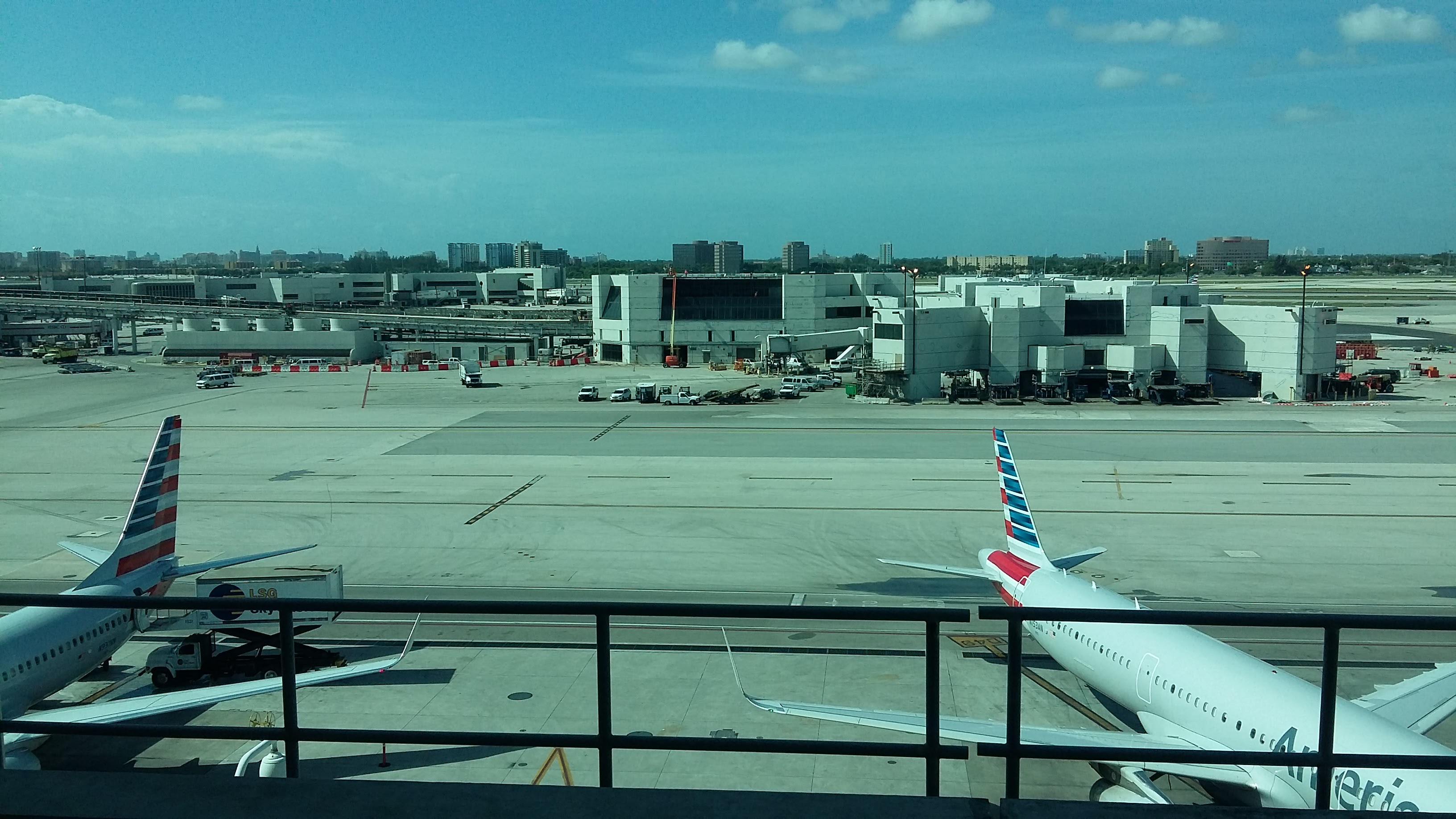 View of Central Terminal, Concourse E from Skytrain Station 4, MIA